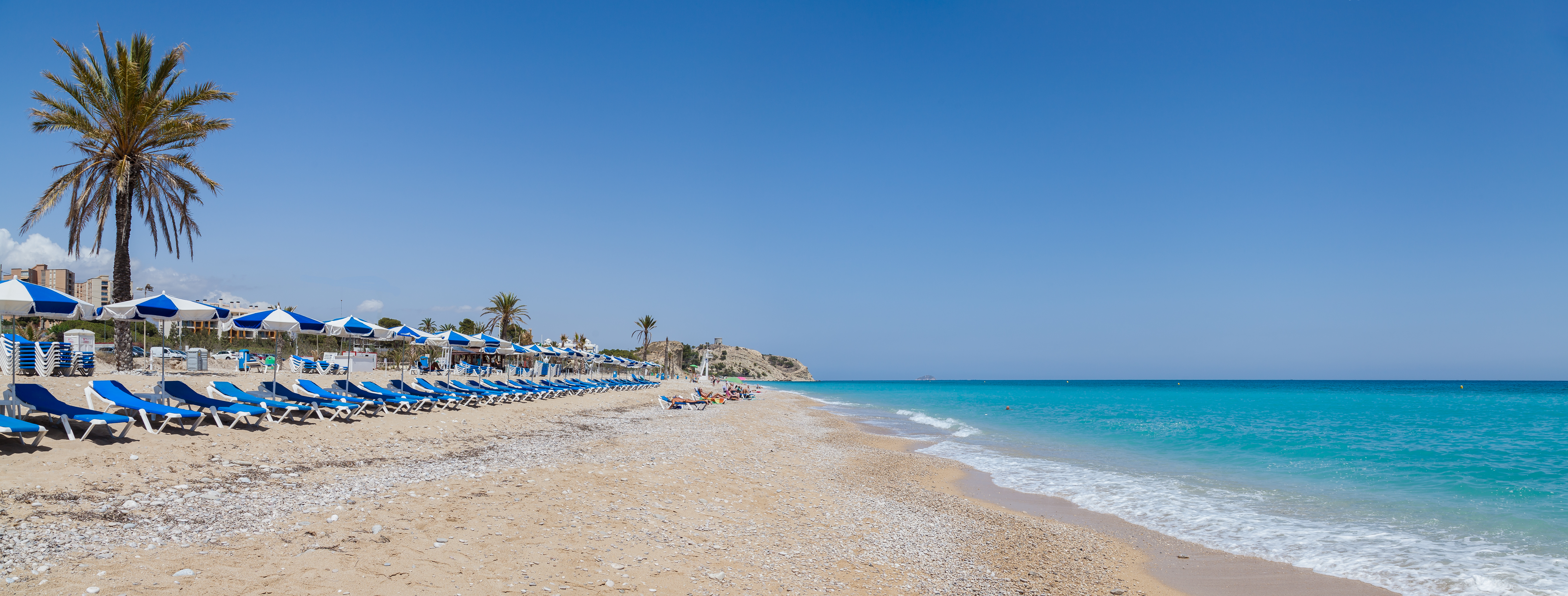 Panoramic view of Paraíso ("Paradise") Beach in Villajoyosa at the Mediterranean Sea (Marina Baixa, Valencian Community), Spain.